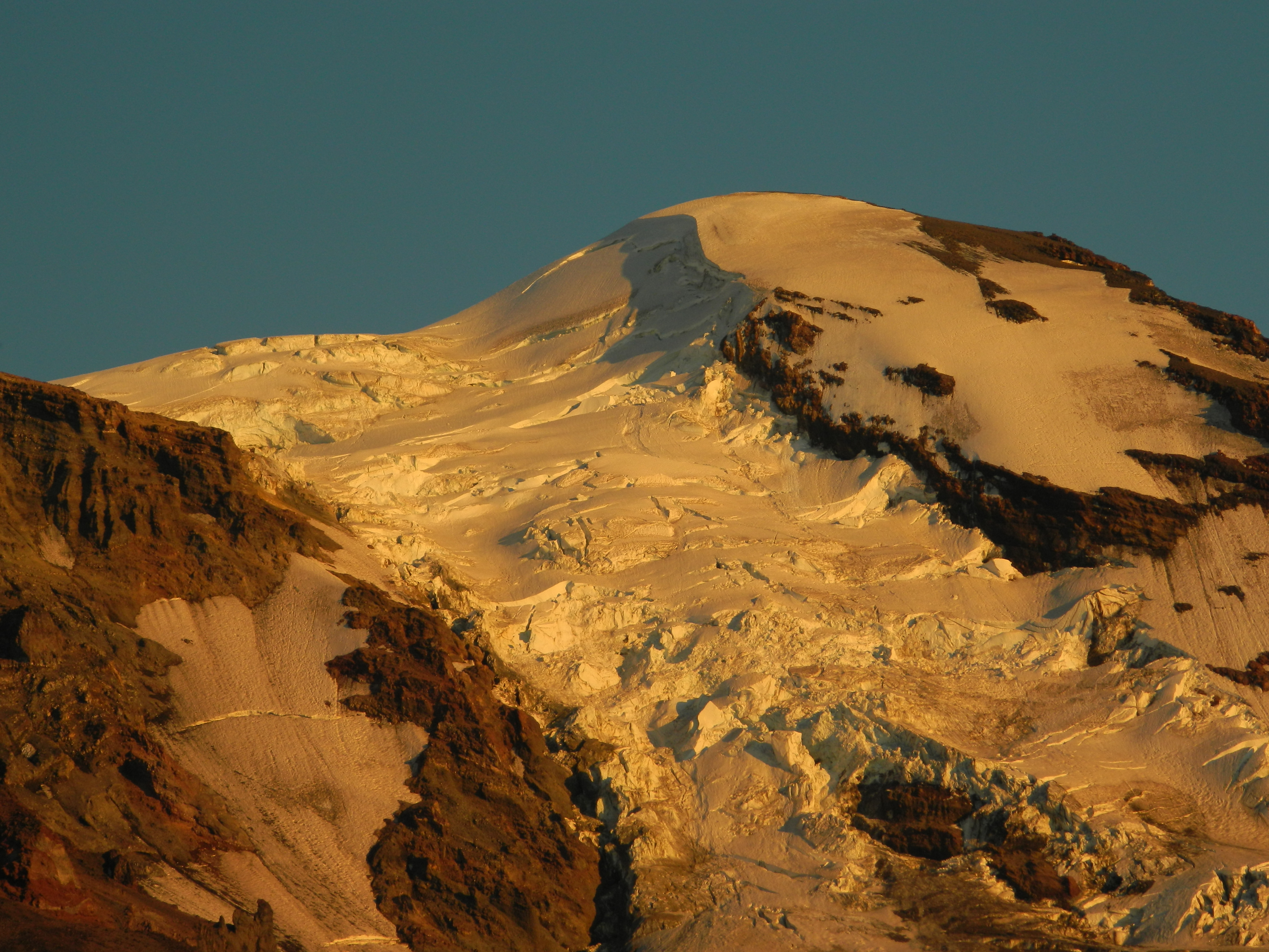 Mount Adams, GPNF, WA